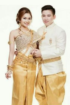 weddingkkk